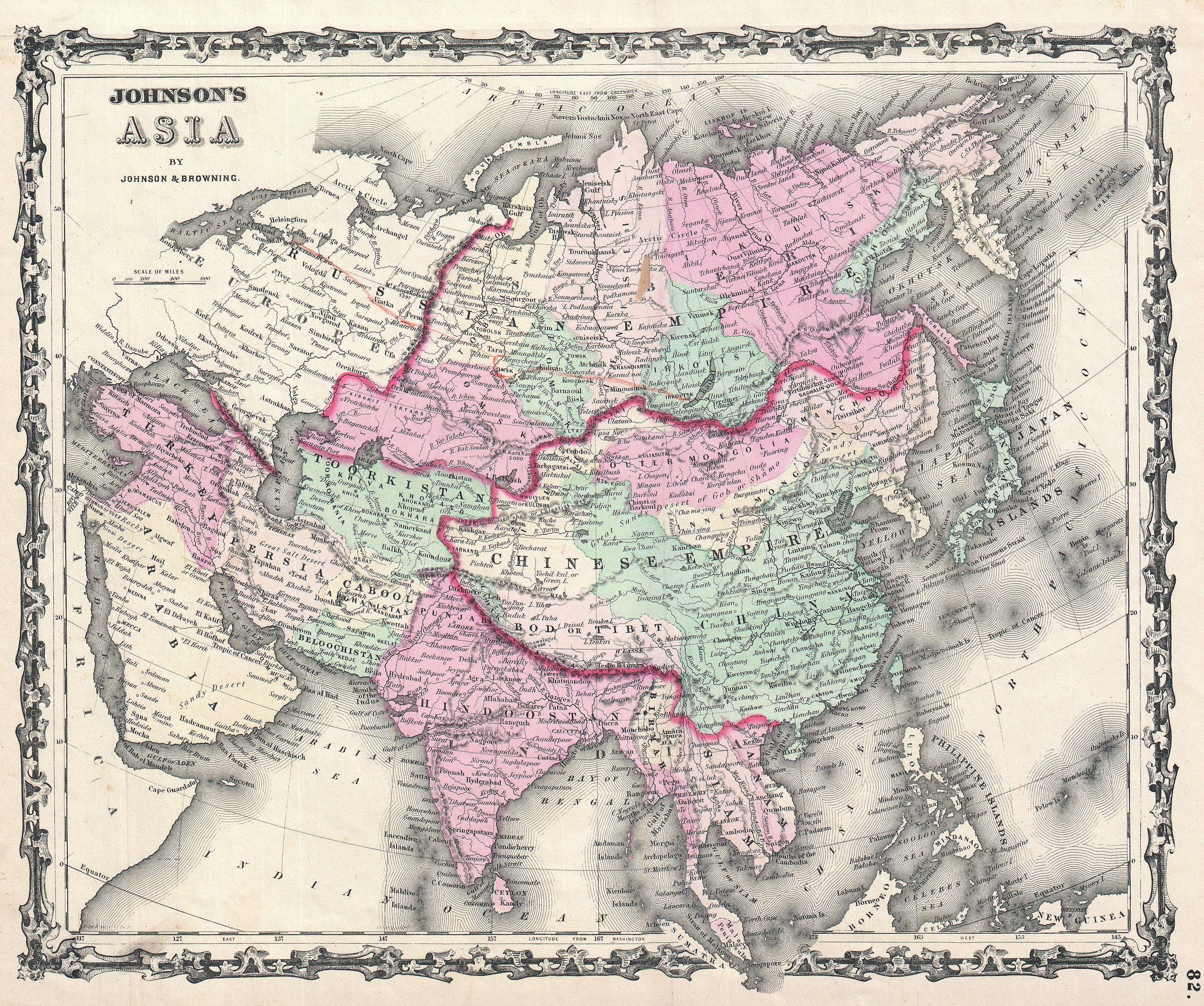 This is Johnson and Browning’s 1861 map of Asia, first edition. Covers the entire continent offering good inland detail even in Central Asia and northern China. Includes parts of Europe, the Arabian Peninsula and Africa. Features the ribbon style border common to Johnson’s atlas work from 1860 to 1862. Steel plate engraving prepared by A. J. Johnson for publication as plate no. 82 in the 1861 edition of his New Illustrated Atlas… This is the last edition of the Johnson’s Atlas to bear the Johnson and Browning imprint.